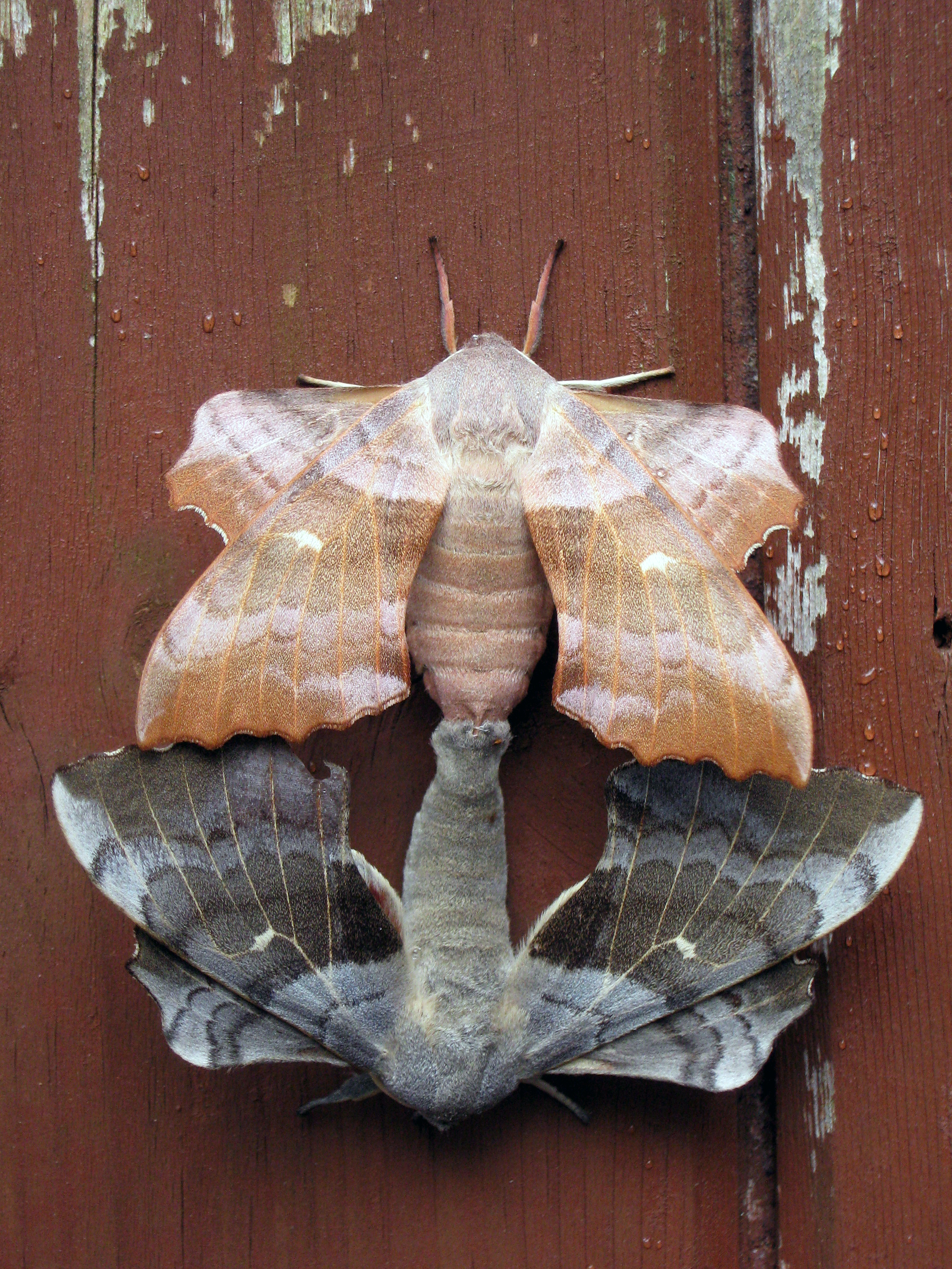 Identified on wp.en Science Reference Desk as mating Laothoe populi (Poplar Hawk-moth) Taken Belfast, Northern Ireland, July 2009.